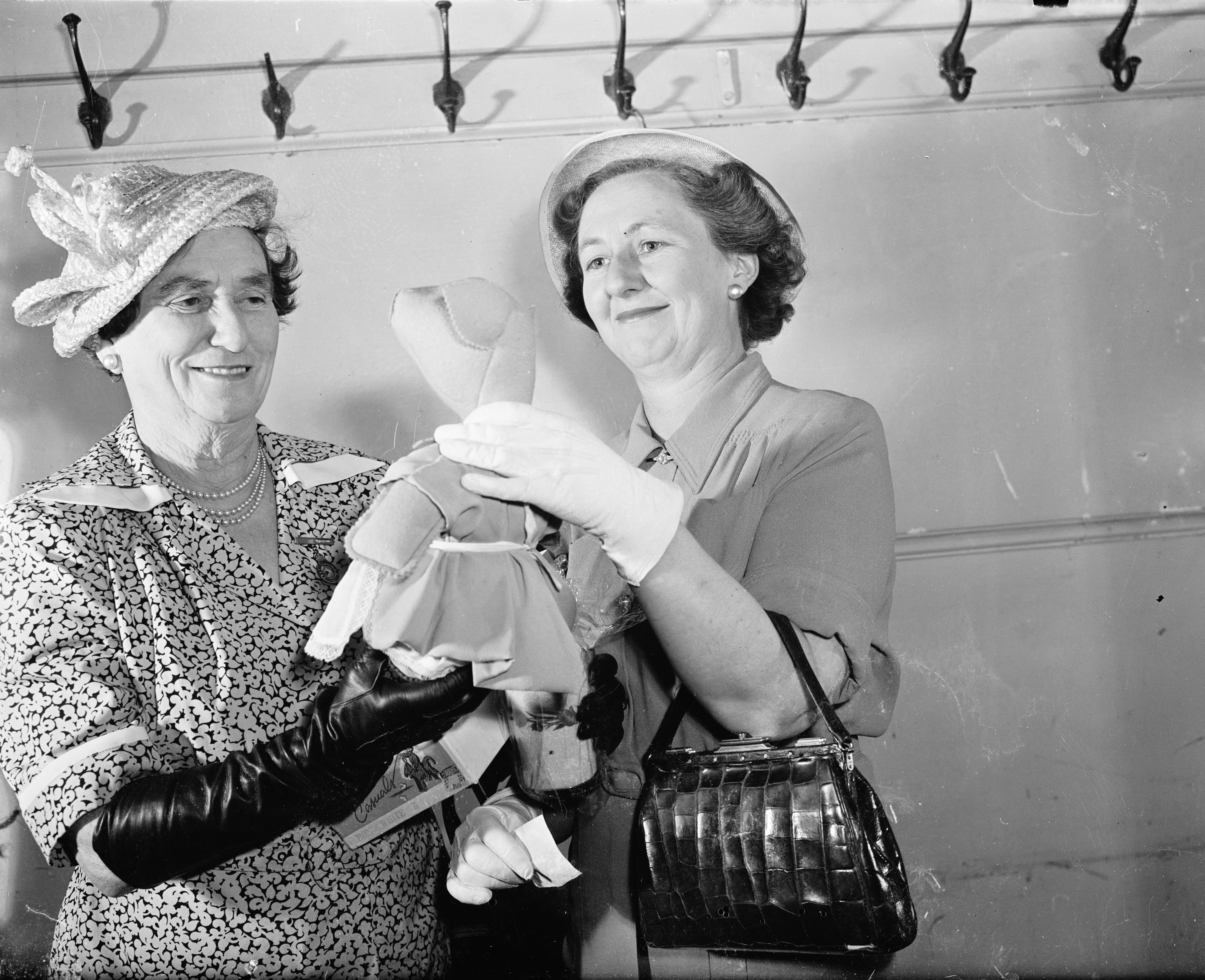 Mrs Hilda Ross (left), Member of Parliament for Hamilton, and Mrs Gilmer, president of the Plunket Society, at the opening of the Karitane Fair at the Wellington Town Hall. They hold a soft toy. Photographed on 27 November 1950 by an Evening Post photographer.